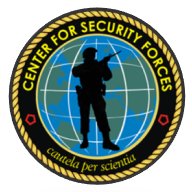 CENSECFOR Patch